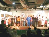 Grupo de Teatro da SFO